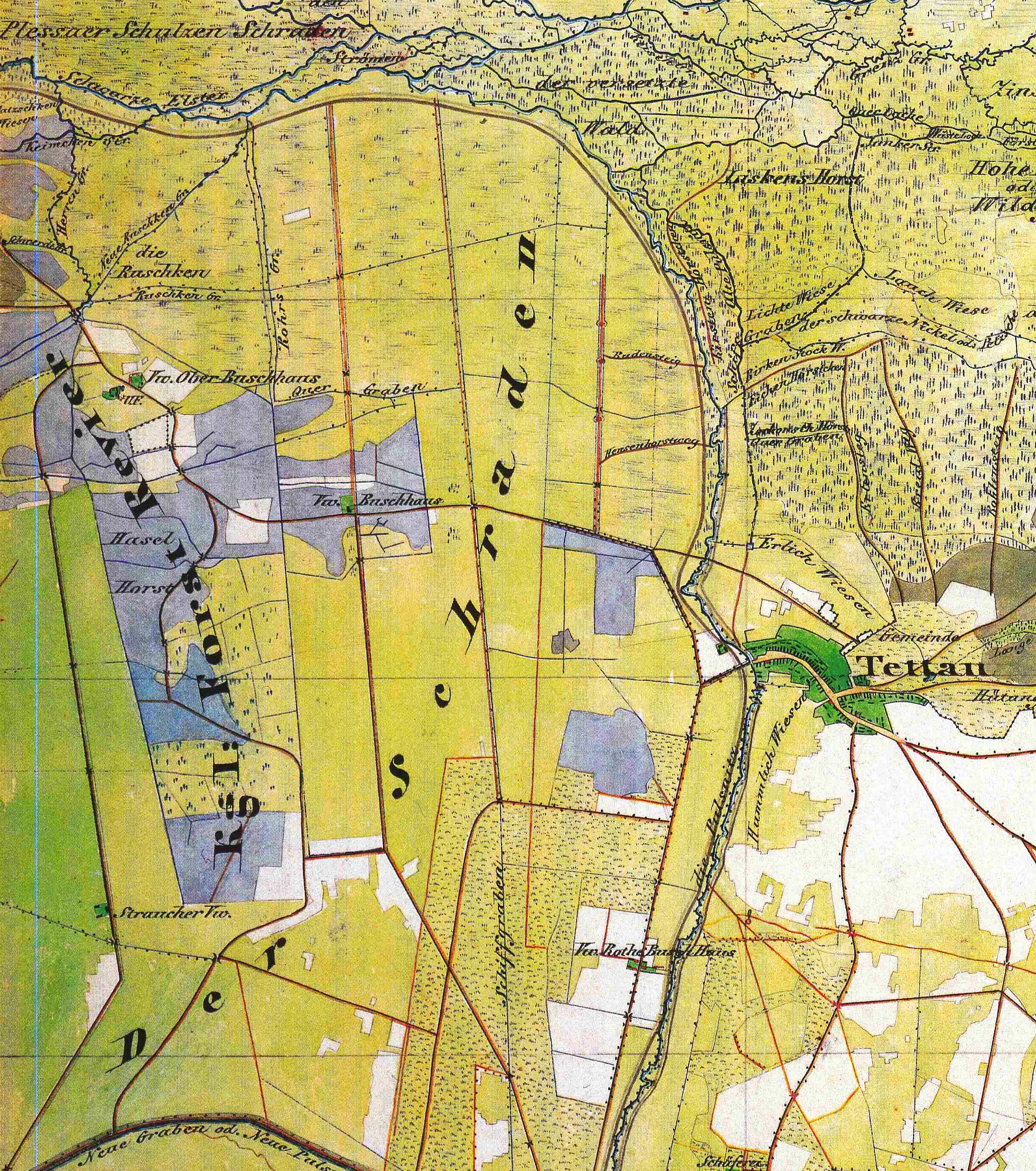 Schraden, Lkr. Elbe-Elster, Brandenburg, Germany, detail from the Urmesstischblatt Sheet 4548 Elsterwerda, drawn in 1841